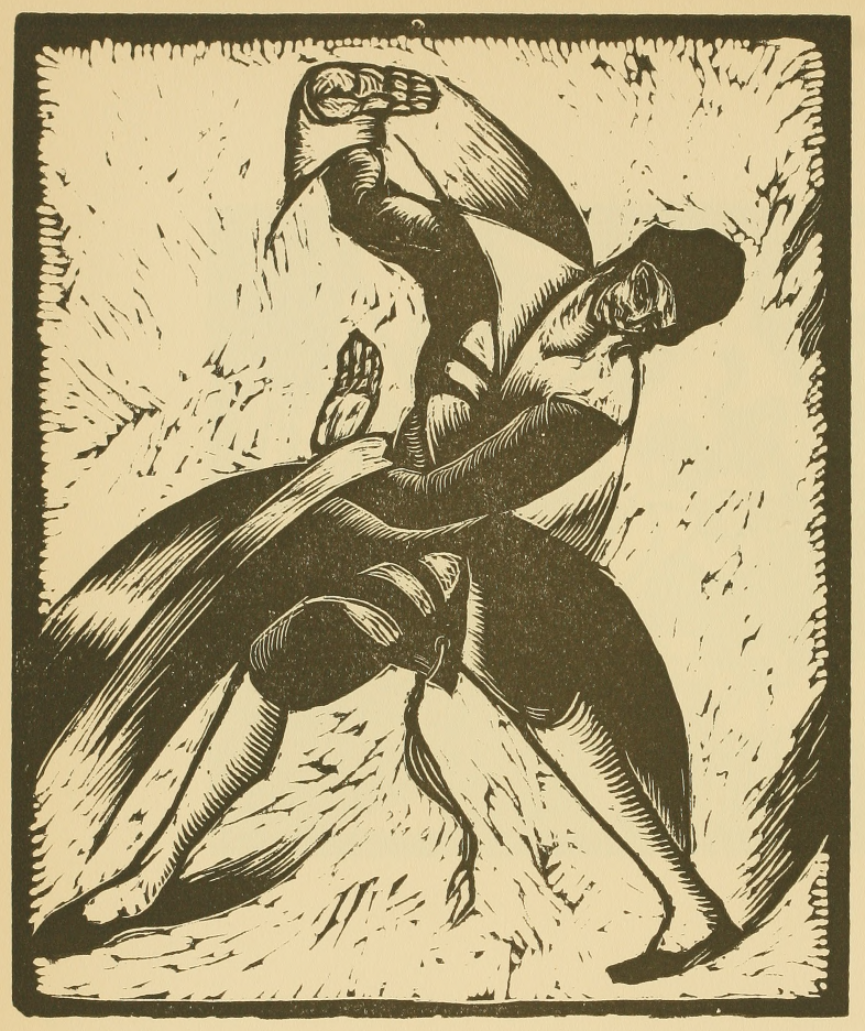 From Land to Land - Hassidic.